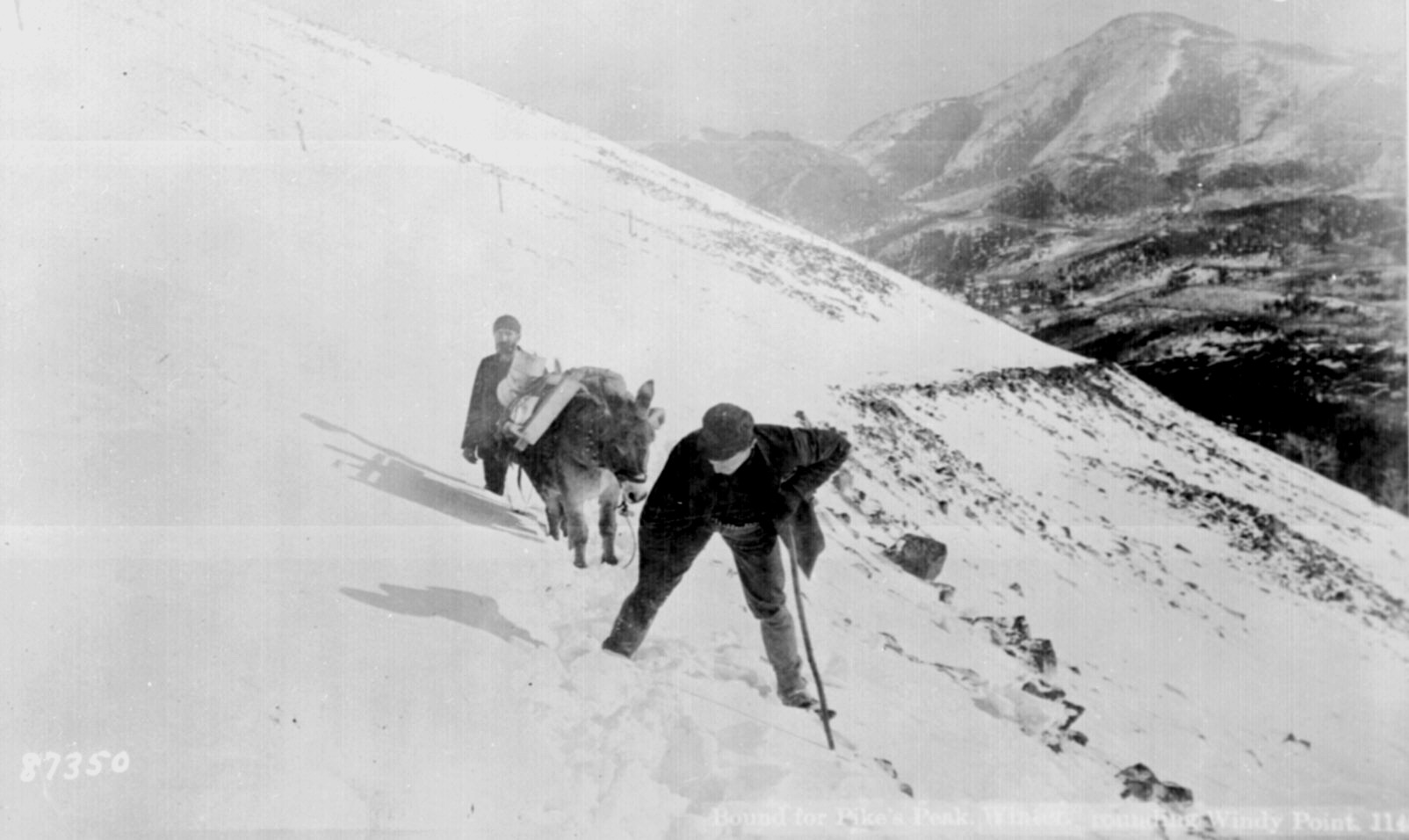 Climbing Pike's Peak, Colorado, in winter, rounding Windy Point, ca. 1890.